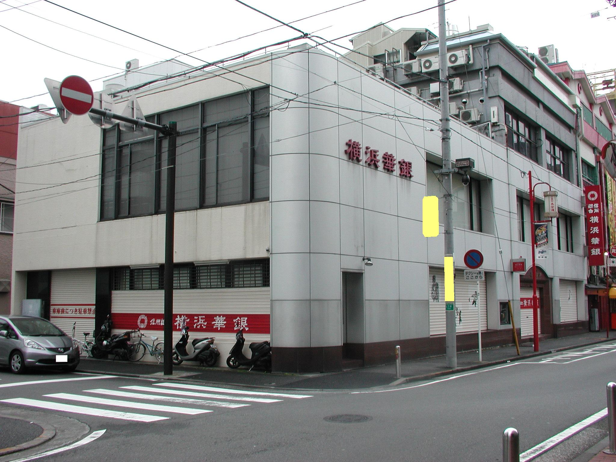 The Yokohama Kagin Credit Cooperative Head Shops